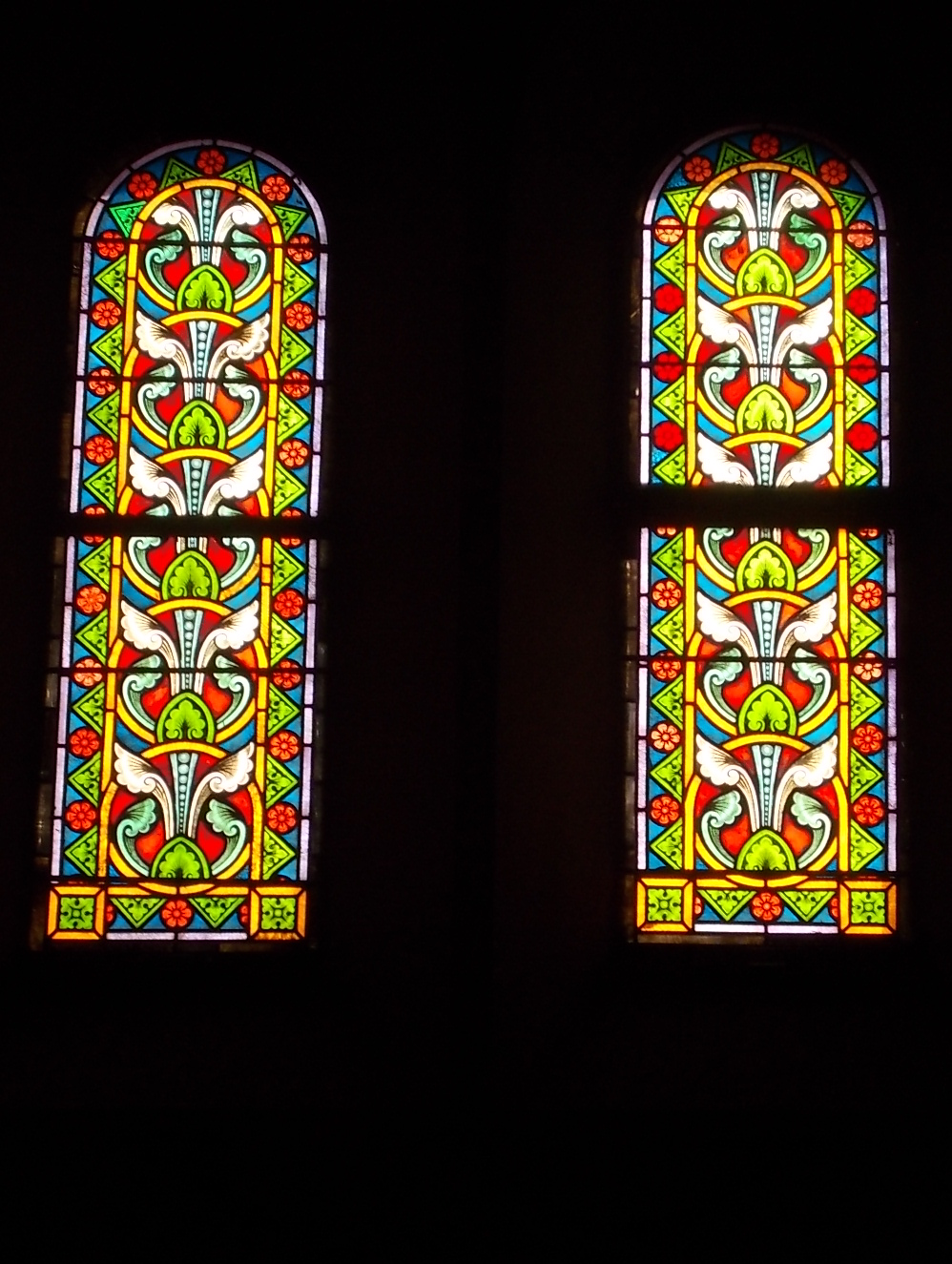 Roman Catholic church or Co-Cathedral of Our Lady of Hungary (Romanesque Revival style, 1904 works) interior. - Kossuth Square, Nyíregyháza, Szabolcs-Szatmár-Bereg County, Hungary.